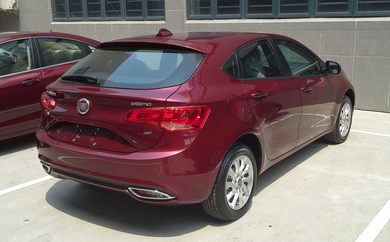 Fiat Ottimo photographed in Shanghai, China.